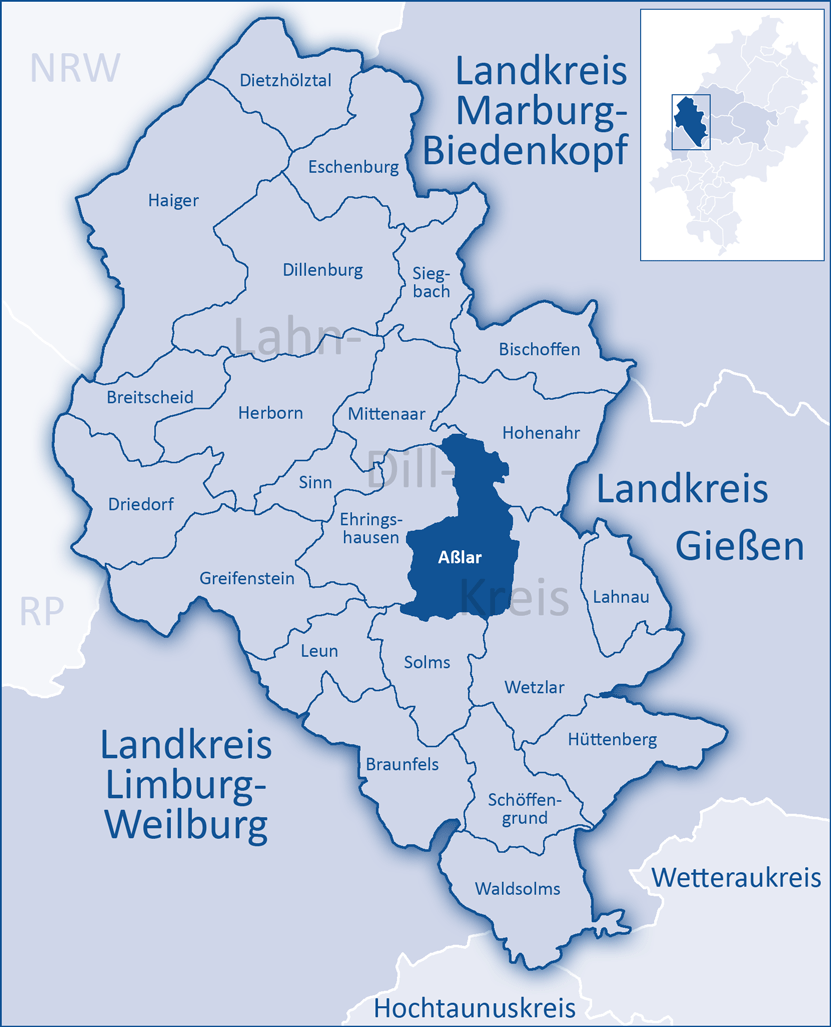 The map shows a district in the area of Lahn-Dill-Kreis